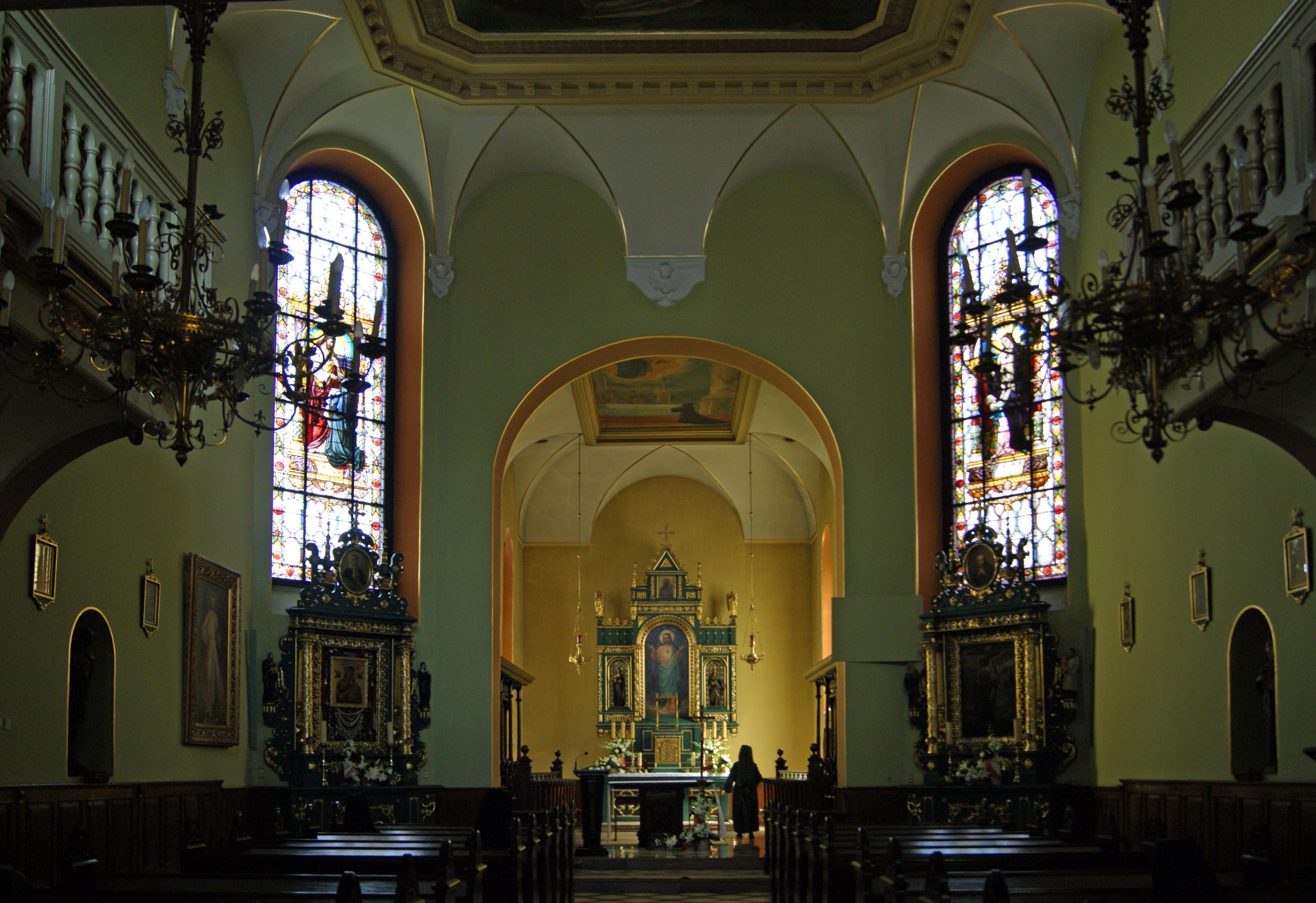 Sacred Heart of Jesus Church (interior), 24 Garncarska street, Krakow, Poland